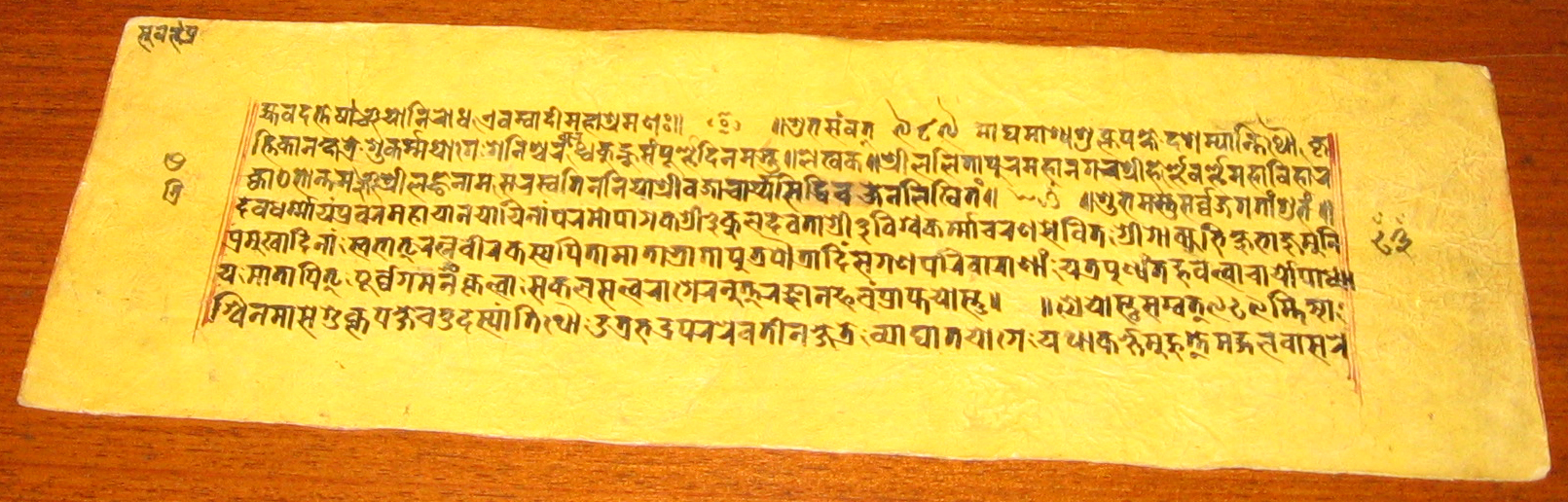 A page from a Buddhist manuscript in Nepal script dated Nepal Sambat 989 (1869 AD).